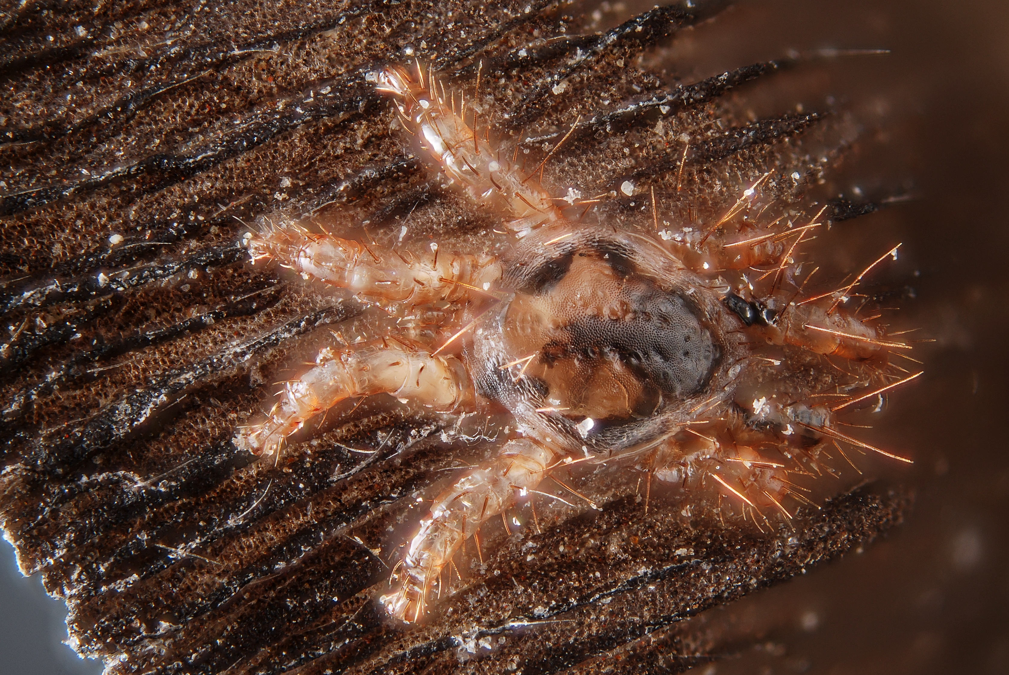 The parasite mite Spinturnix bechsteinii, on bat Myotis bechsteini. Max body width 0.7 mm. Specimen from Switzerland.